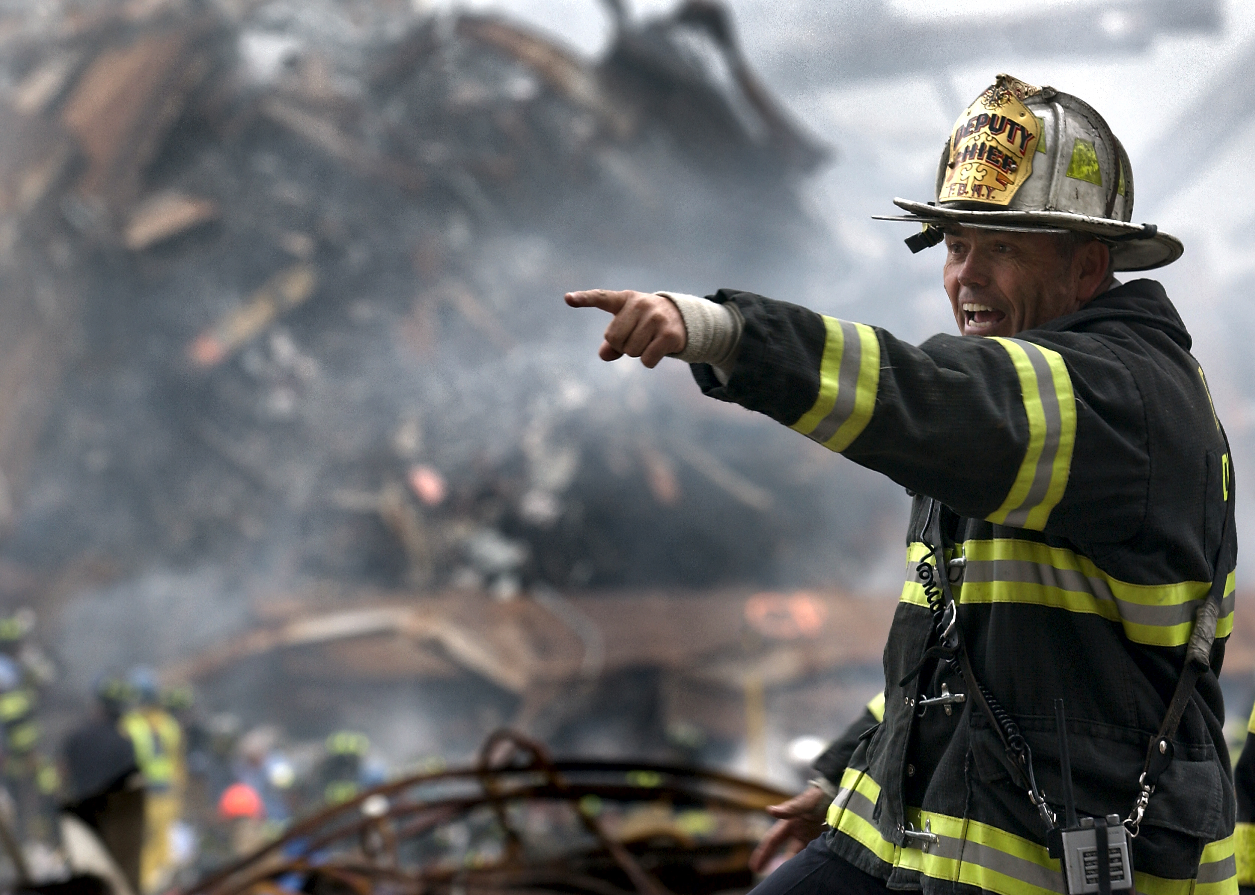 New York Fire Department Deputy Chief Joseph Curry calls for rescue teams at Ground Zero three days after the 9/11 terrorist attacks.